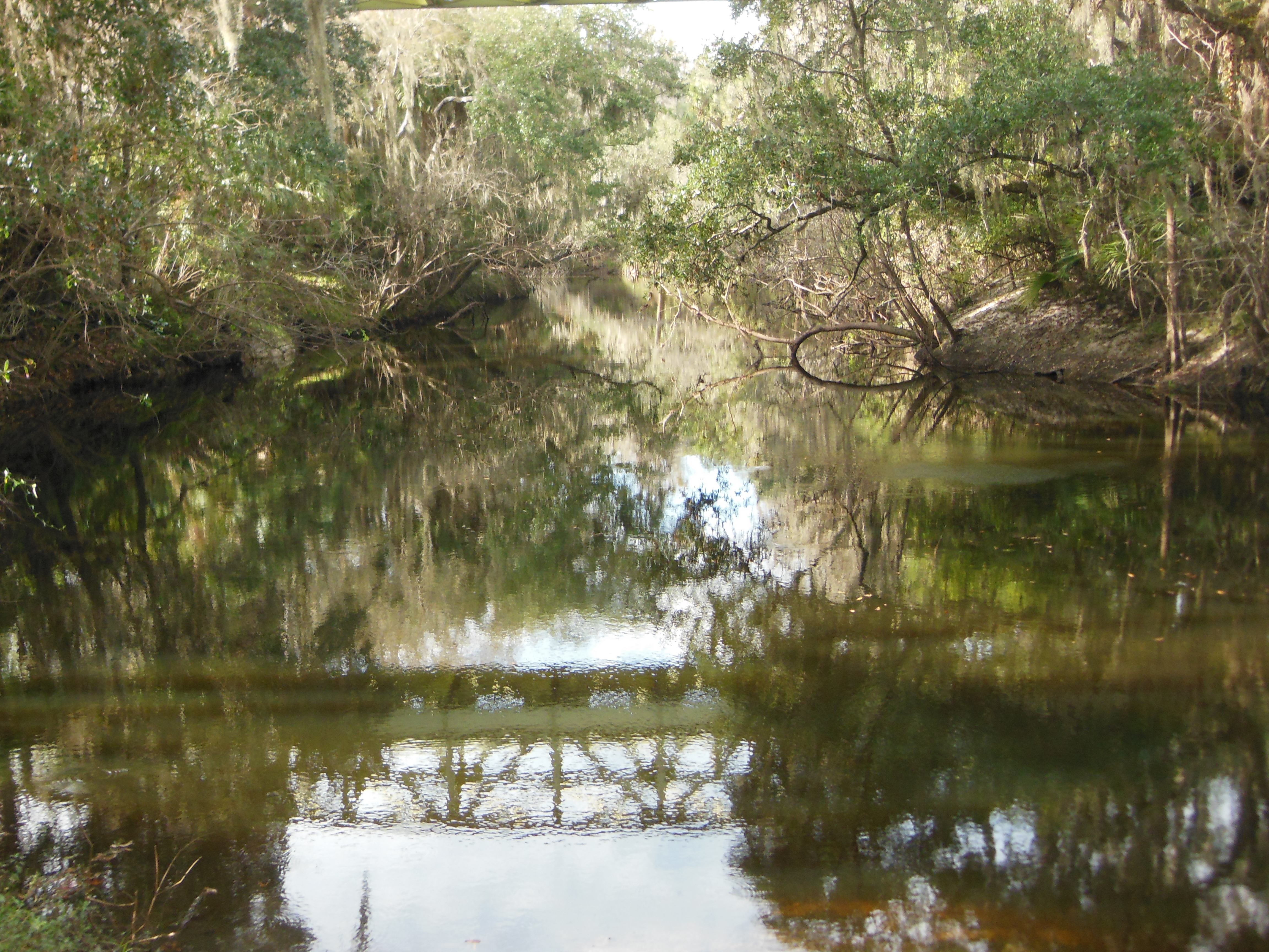 A view of the Alafia River at FishHawk, Florida on Januar 4, 2015